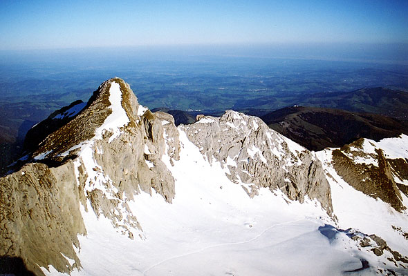 View from the Säntis to northeast (a mountain in the alps in Switzerland)